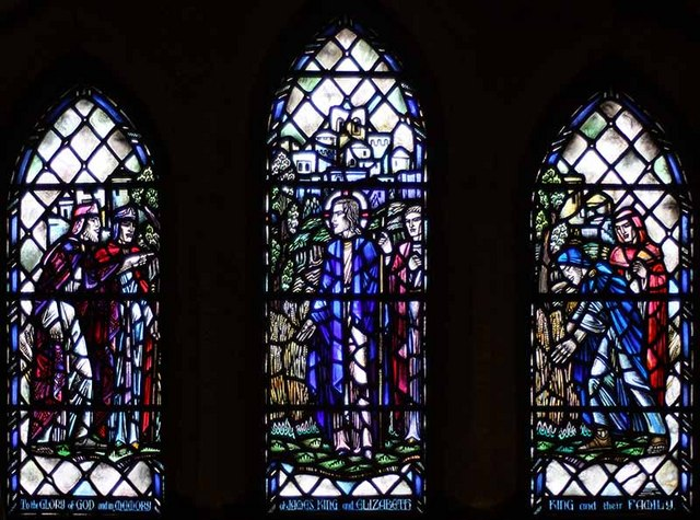 Dunblane Cathedral - Window by Louis Davis